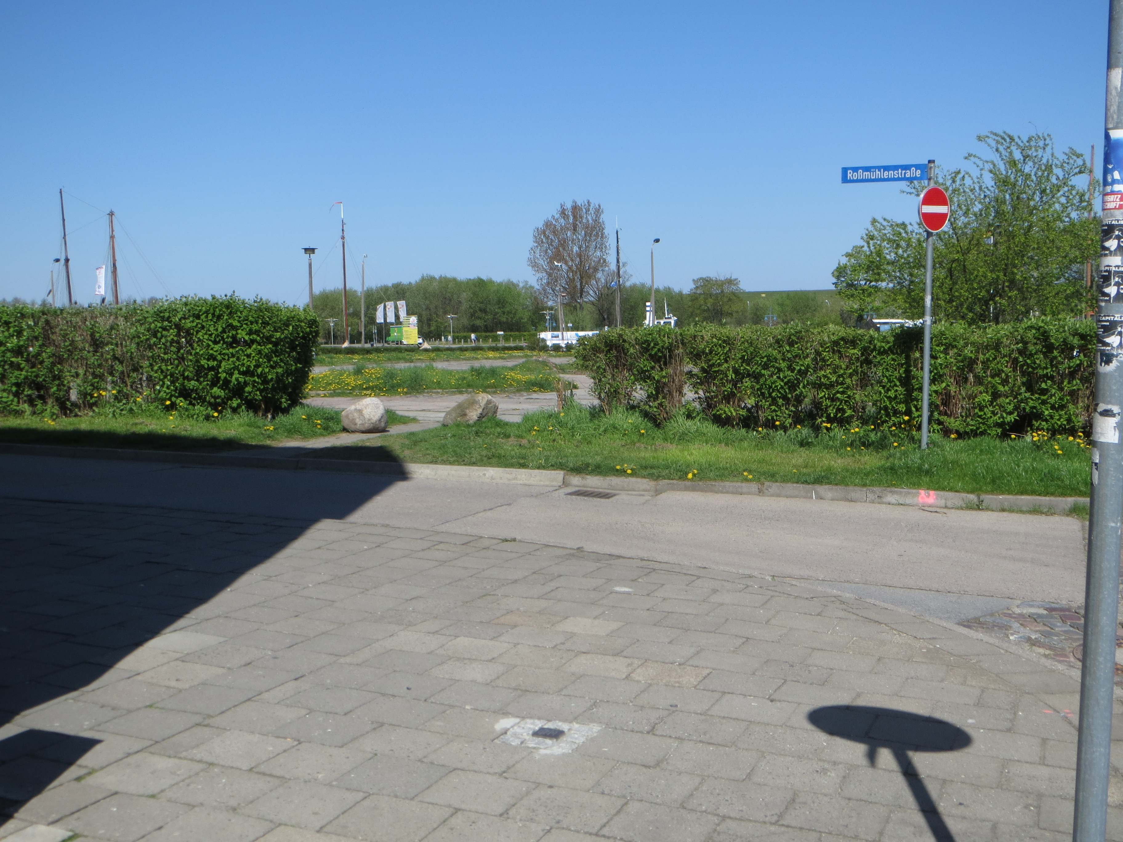 Corner of Kuhstrasse and Rossmühlenstrasse in Greifswald